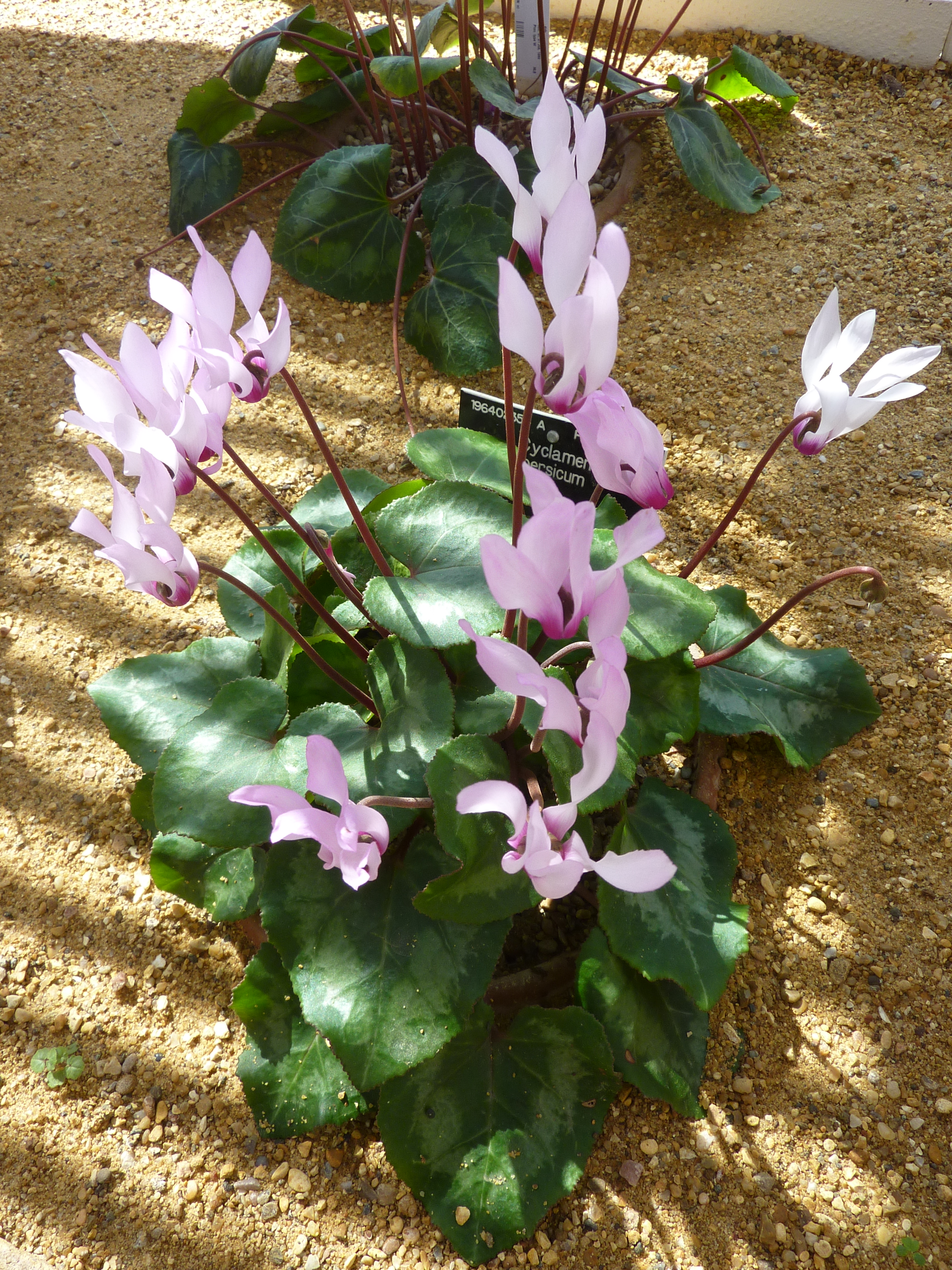 Taken in the Cambridge University Botanic Garden.